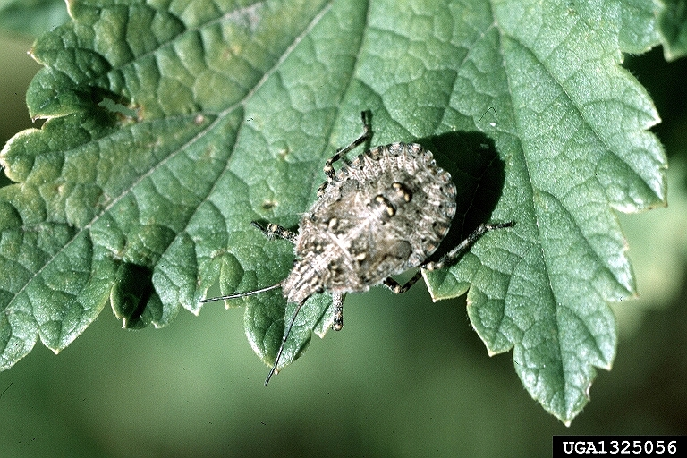 Rough stinkbug (Brochymena quadripustulata) (nymph) ; family Pentatomidae